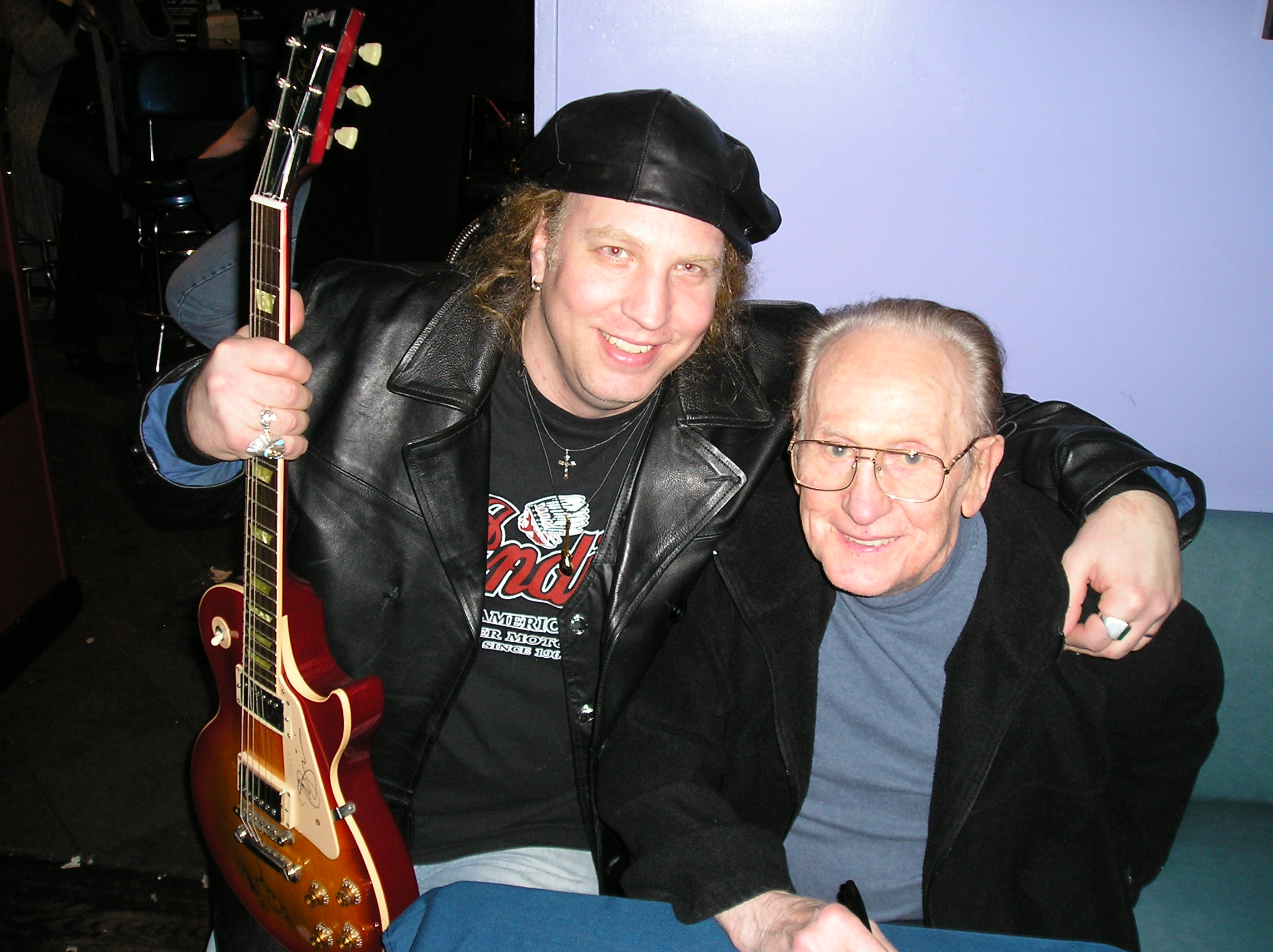 Tarquin & Les Paul at The Iridium.